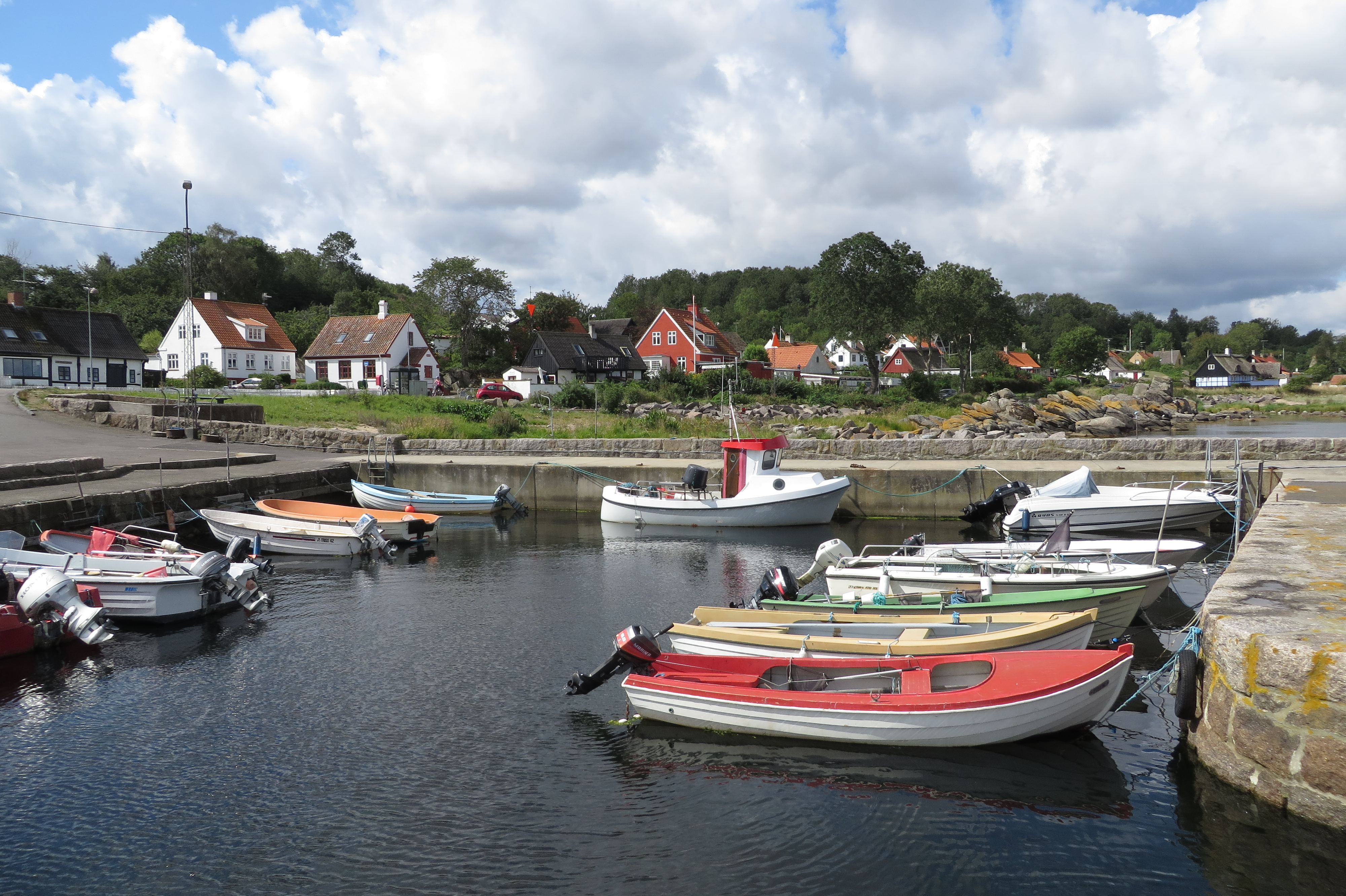 Listed, Bornholm